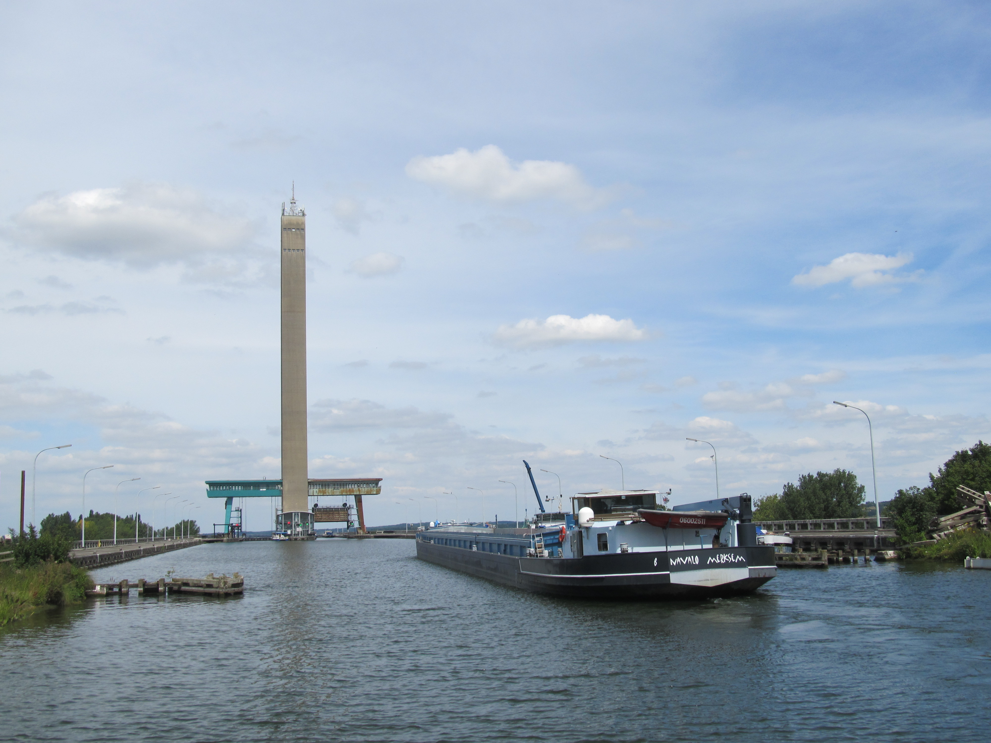 The Ronquières inclined plane in Belgium on the Brussels-Charleroi Canal.